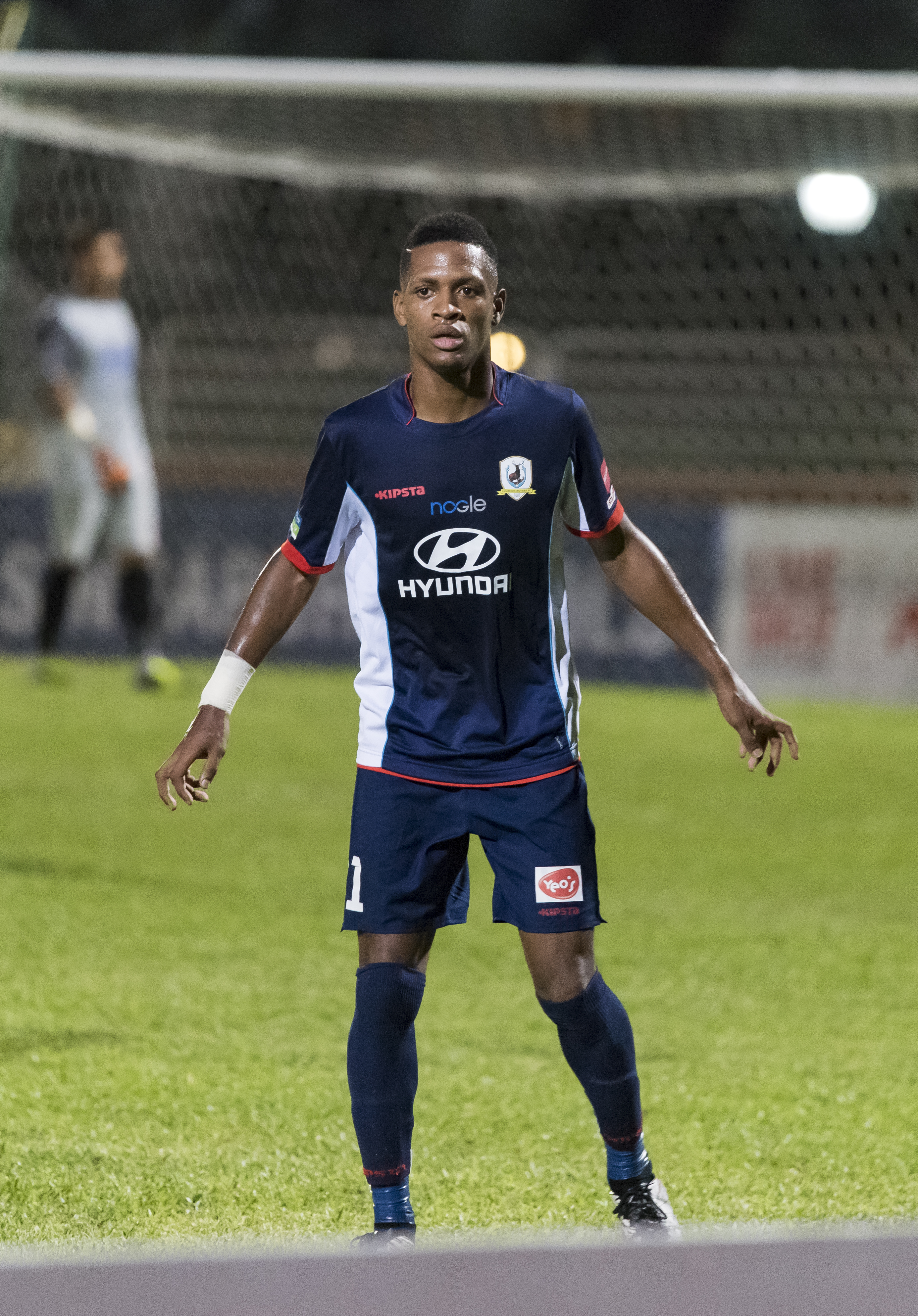 jordan webb playing for tampines rovers in 2016 s-league game versus geylang